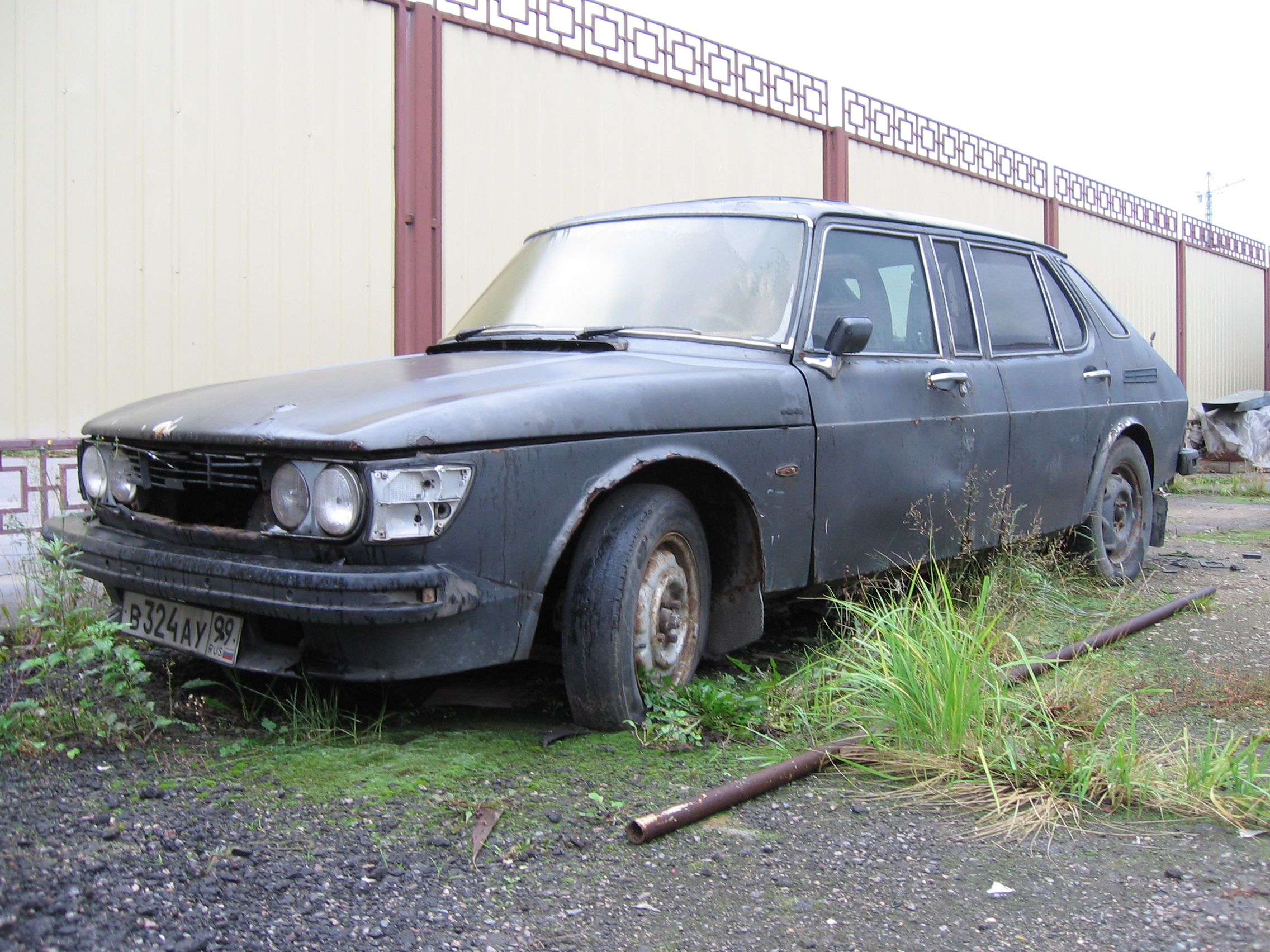 SAAB 99 Combi Coupé with an extended wheelbase, in Finlandia, Russia.